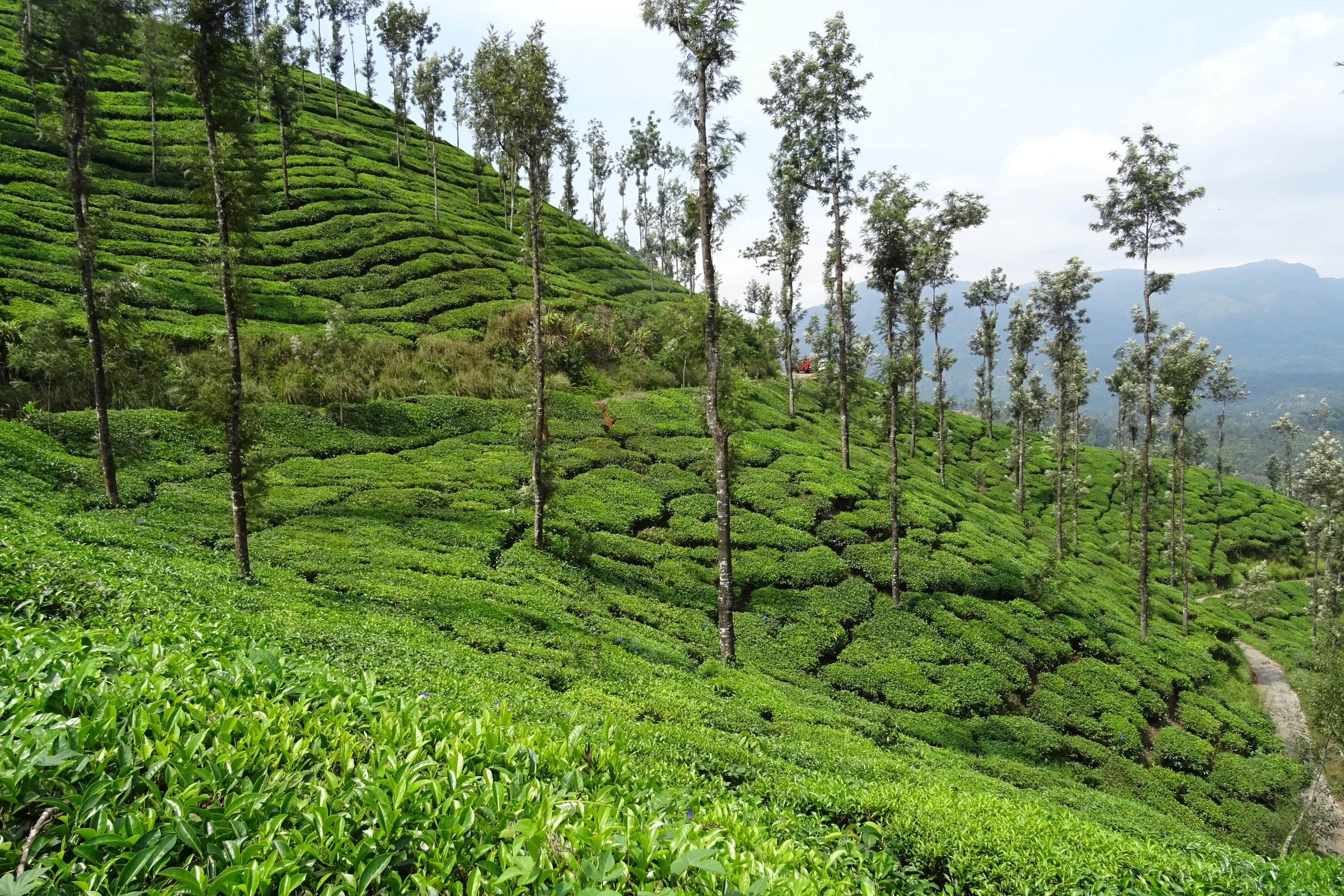 Tea plantation at Mudigere, Chikkamagalur, Karnataka, India